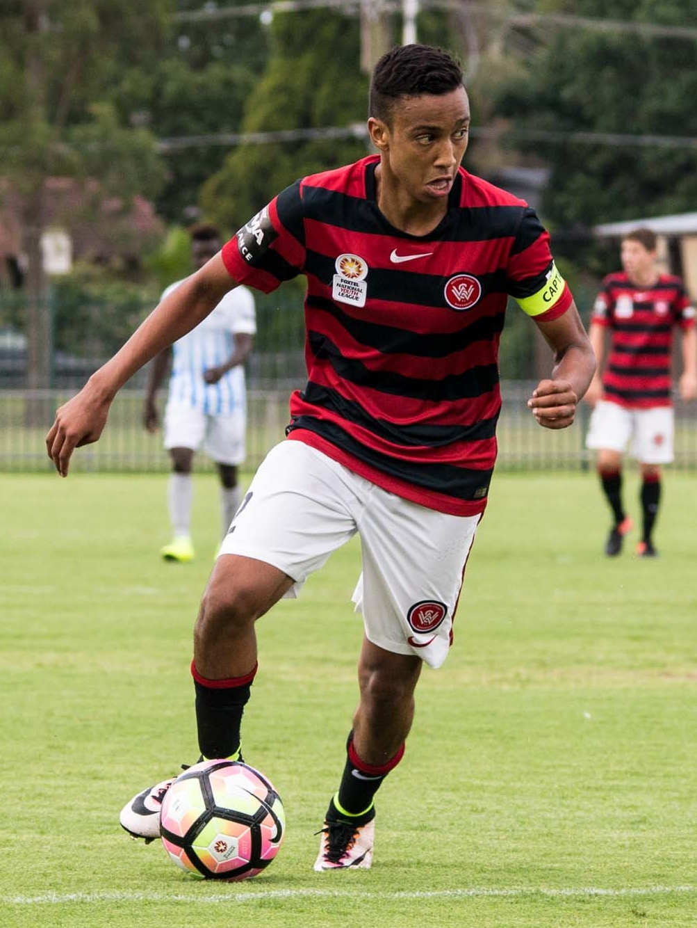 Baccus -playing for Wanderers U21